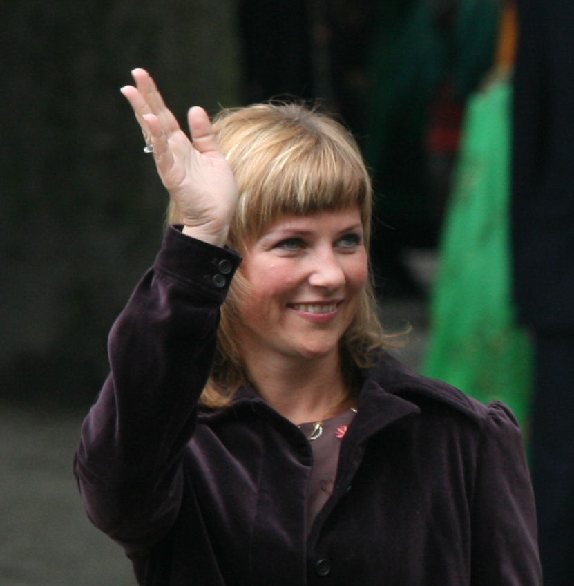 Princess Märtha Louise of Norway